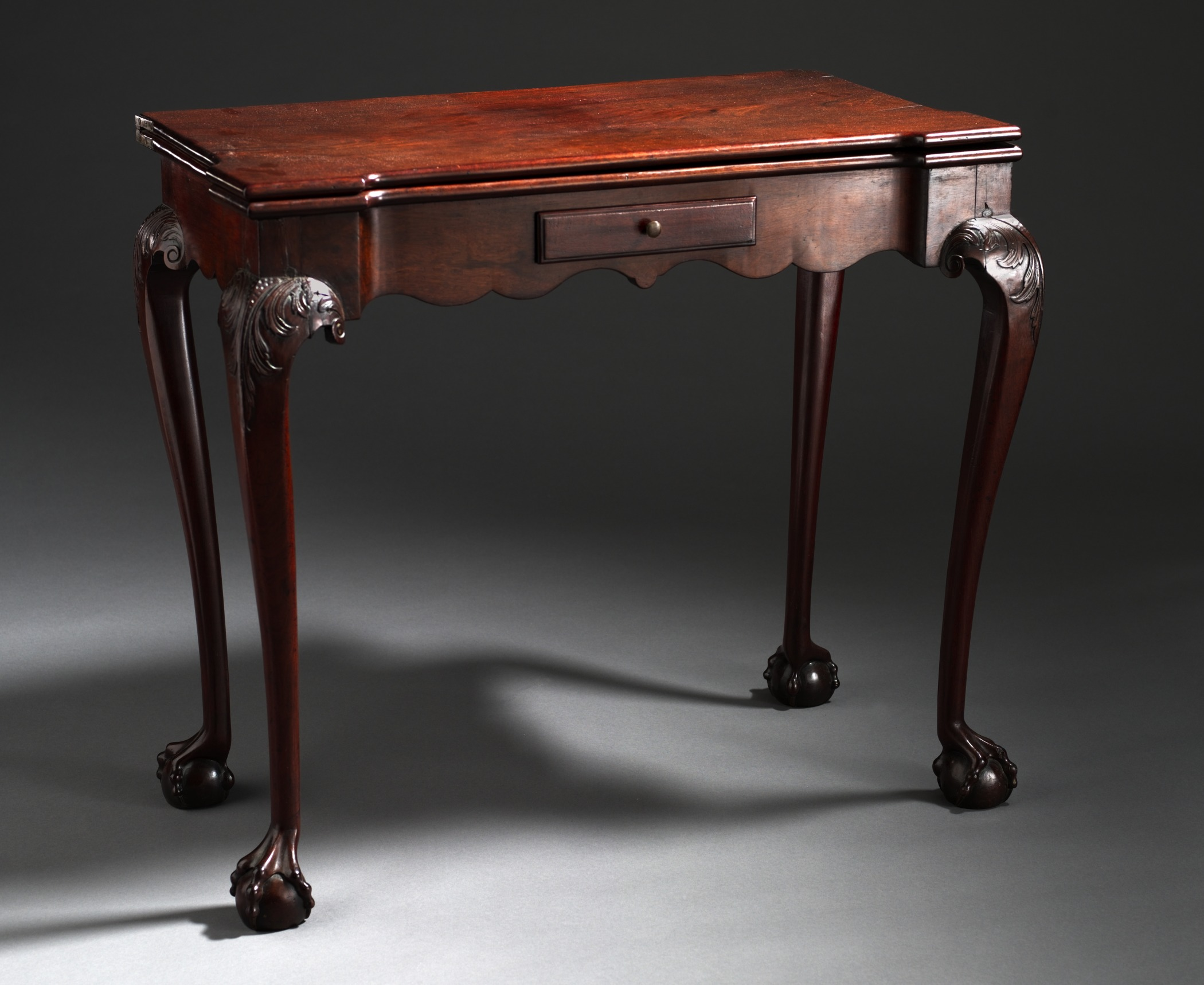 United States, Massachusetts, circa 1770 Furnishings; Furniture Mahogany and pine, scalloped apron and ball and claw feet 28 3/4 x 33 1/2 x 16 1/4 in. (73.03 x 85.09 x 41.28 cm) Gift of Mrs. Murray Braunfeld (M.2006.51.52) Decorative Arts and Design